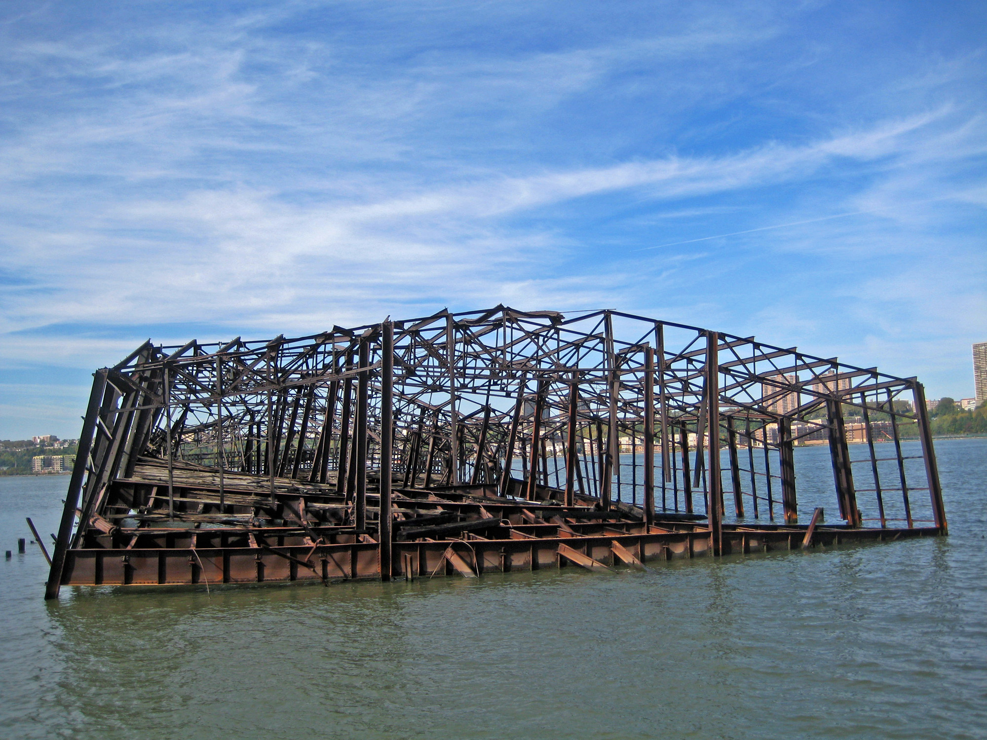 Frame of an old burnt-out New York Central Railroad dock on the west side of Manhattan, which was used for "Spider-Man 2".